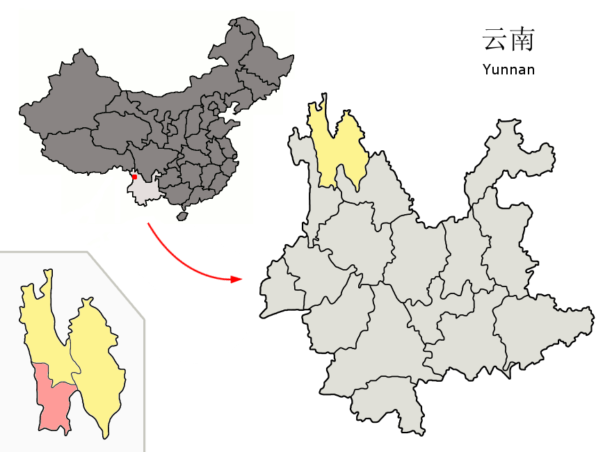 Location of Weixi County (pink) and Dêqên prefecture (yellow) within Yunnan province of China Map drawn in september 2007 using various sources, mainly : Yunnan province administrative regions GIS data: 1:1M, County level, 1990 Yunnan Counties map from